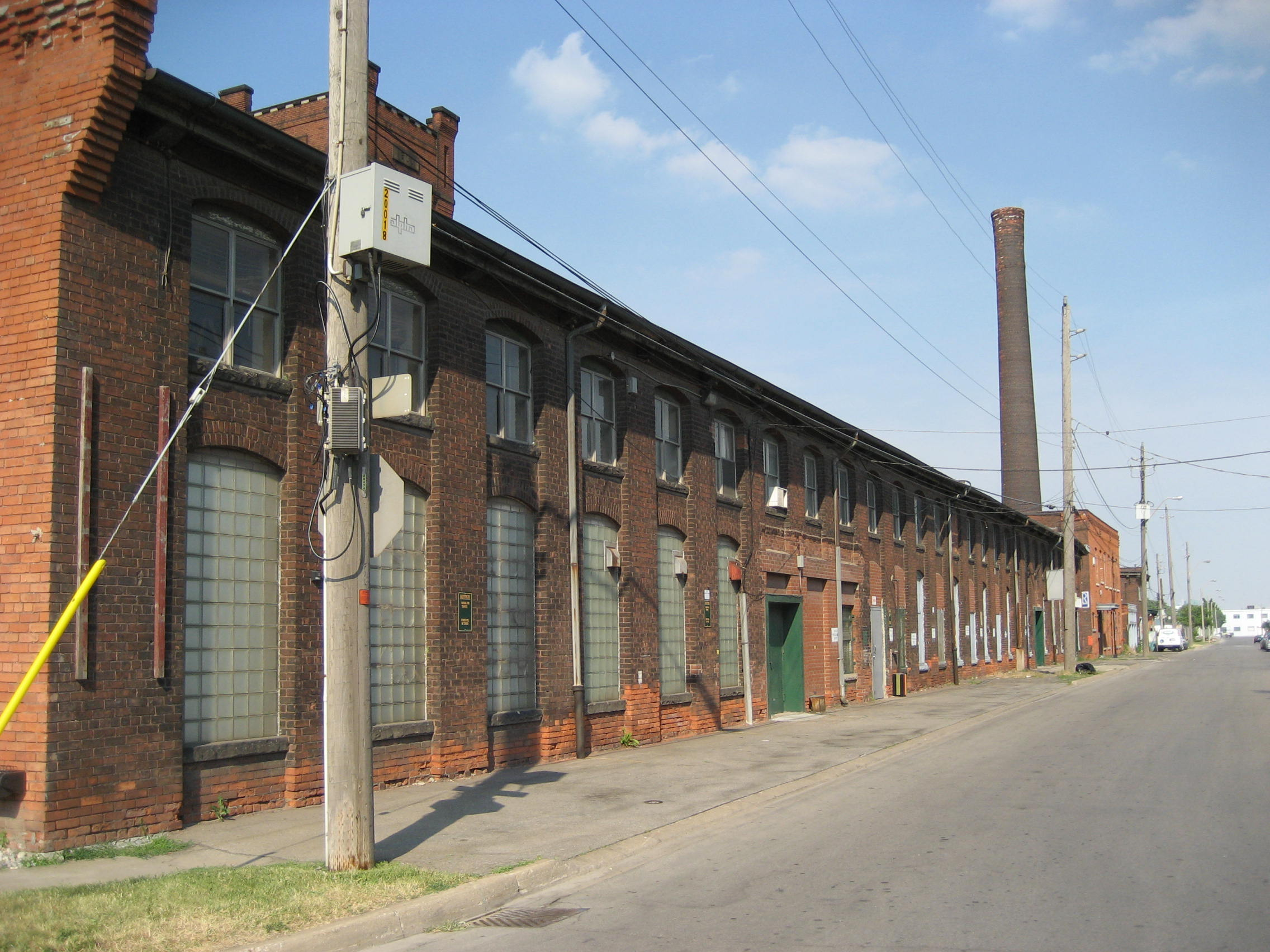 270 Sherman (former Imperial Cotton Company complex), Sherman Ave. North, Hamilton, Ontario